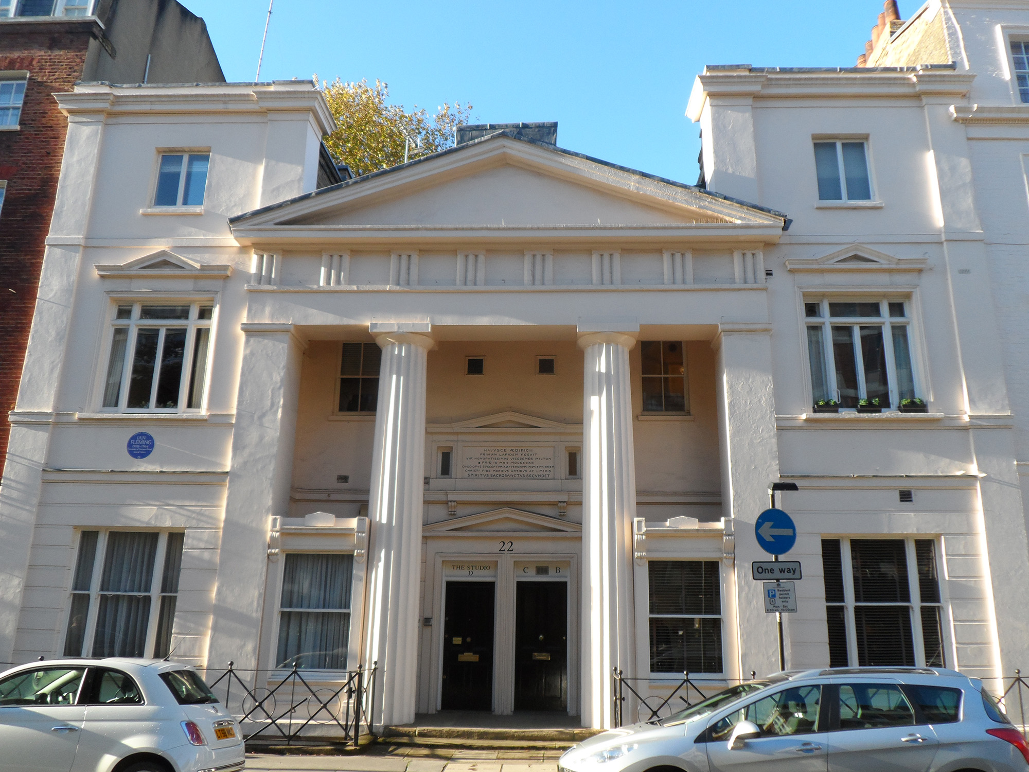 IAN FLEMING 1908-1964 Creator of James Bond lived here